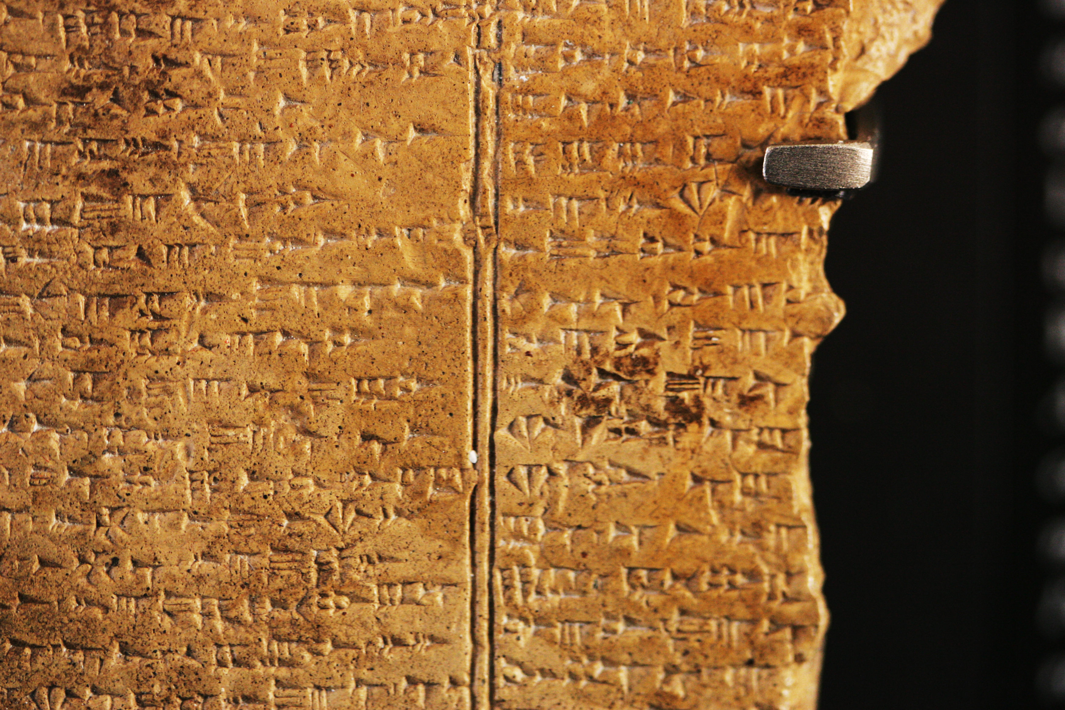 Artist Unknown artistDescription Ugaritic language, Cuneiform script Baal Epic. Ball and death. [1] 14th century BC, Display 12Collection Louvre Museum (Inventory)Native nameMusée du LouvreParent institutionÉtablissement public du musée du Louvre LocationParisCoordinates48° 51′ 37.42″ N, 2° 20′ 15.36″ E Established1793 Web page control : Q19675 VIAF: 257711507 ISNI: 0000 0001 2260 177X ULAN: 500125189 LCCN: n80020283 NLA: 35912436 WorldCat institution QS:P195,Q19675Current location Sully Rez-de-chaussée Levant : Syrie côtière, Ougarit et Byblos Salle BAccession number AO 16641, AO 16642Credit line Found by C. Schaeffer in 1930-31Source/Photographer Rama Ugaritic language, Cuneiform script Baal Epic. Ball and death. [1] 14th century BC, Display 12